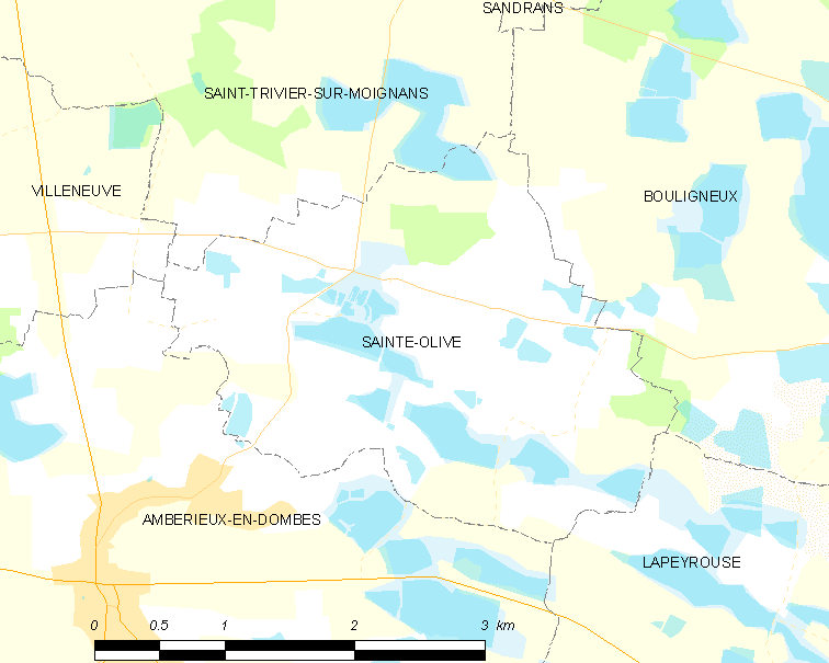 Map of French commune: Sainte-Olive Map commune FR insee code 01382.png